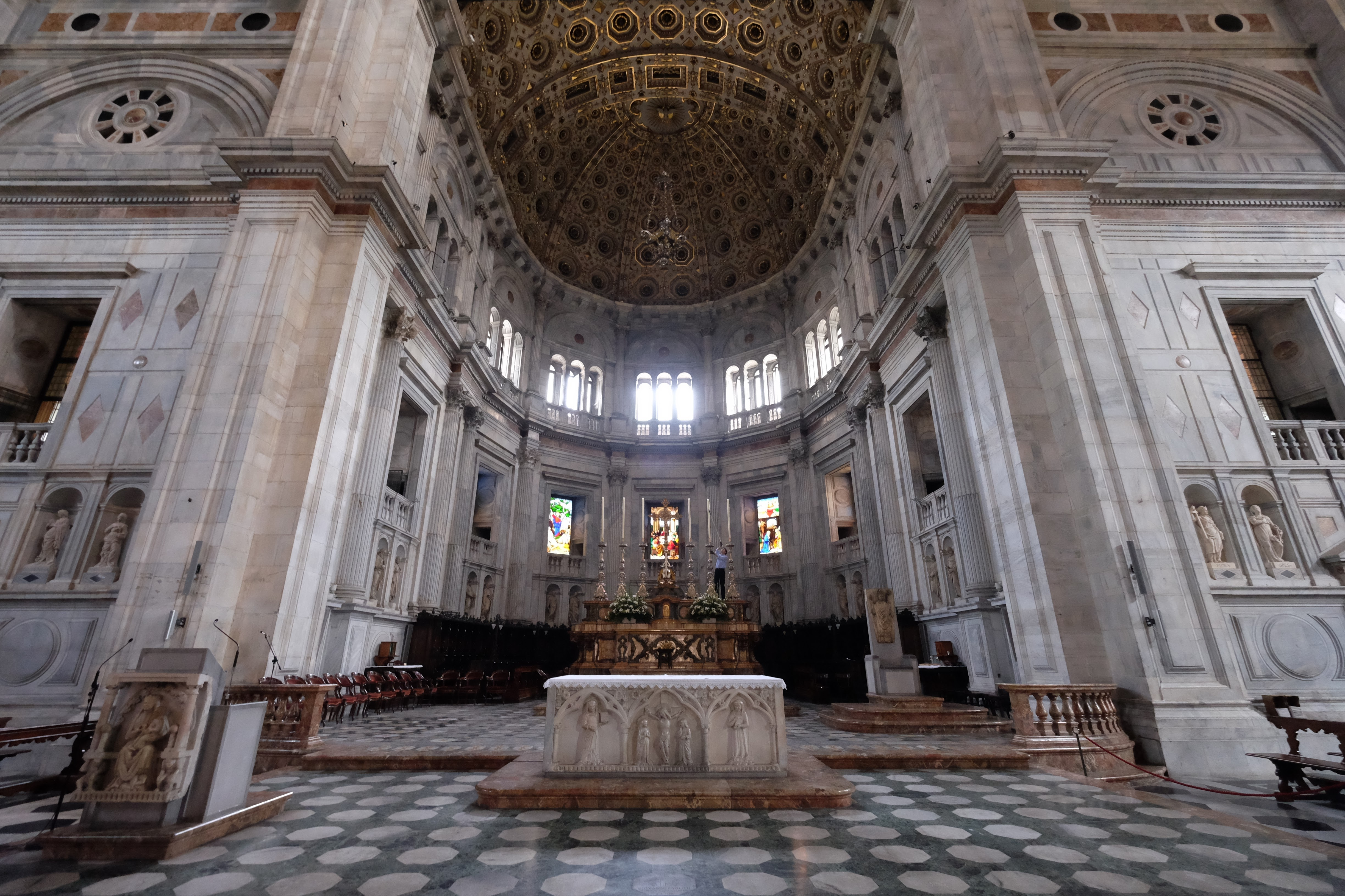 22100 Como, Province of Como, Italy